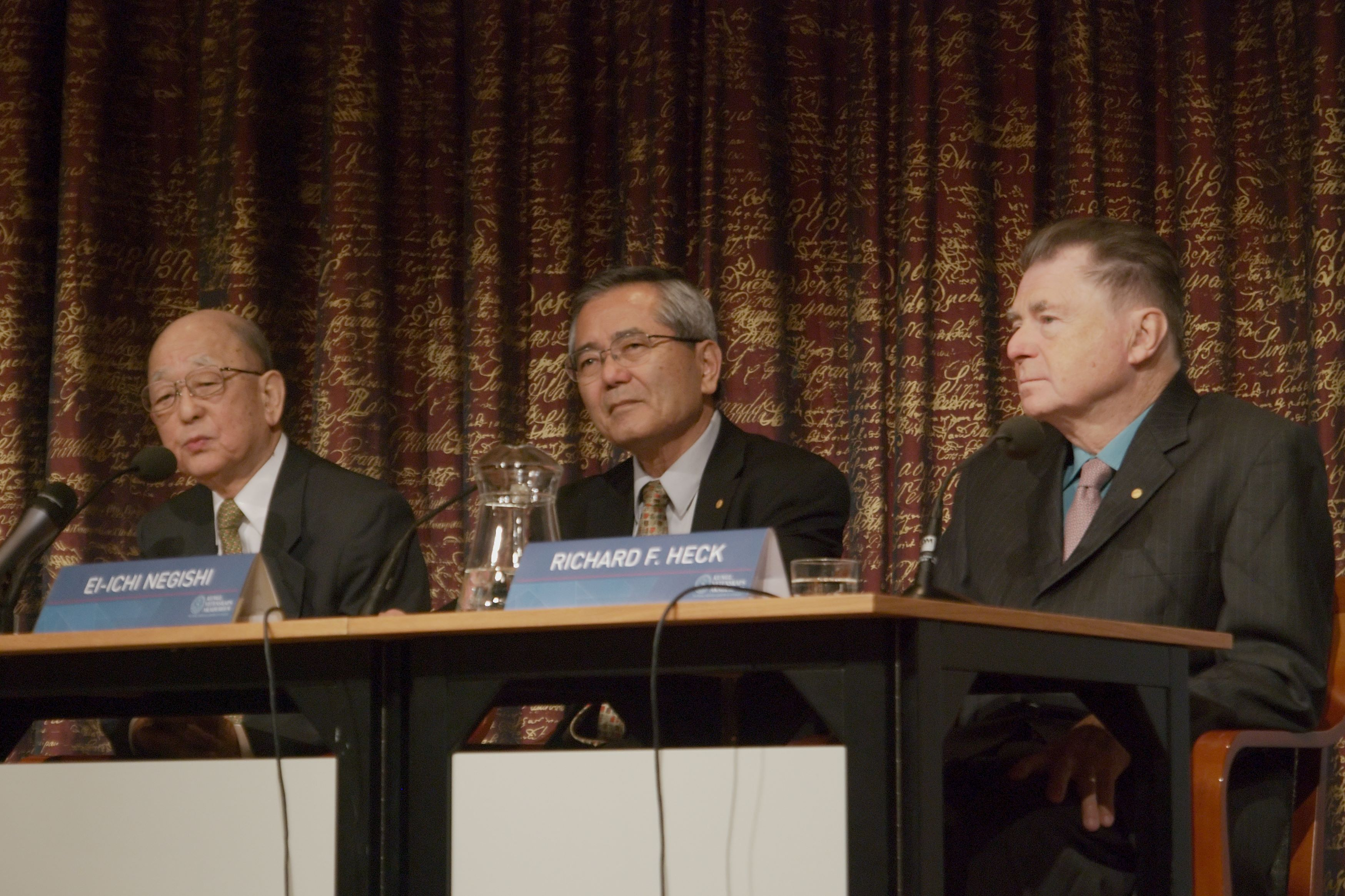 Nobel Prize 2010, press conference with the laureates of the Nobel prizes in chemistry and physics and the memorial prize in economic sciences at the KVA.